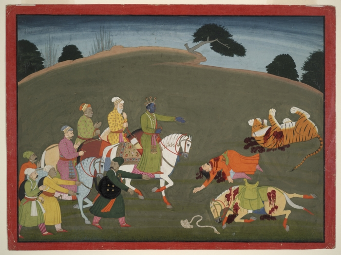 Illustration to the Bhagavata Purana, Book 10: Krishna on horseback ca. 1760 Artist: Unknown The Vera M. and John D. MacDonald, B.A. 1927, Collection, Gift of Mrs. John D. MacDonald 2001.138.33 Object Details Medium: Opaque watercolor and gold on paper Dimensions: Without mounting: 26.4 x 37.6cm (10 3/8 x 14 13/16in.) With mounting: 45 x 55cm (17 11/16 x 21 5/8in.) Geog. Data: Period: Mughal Period (1526 - 1857) Culture Indian